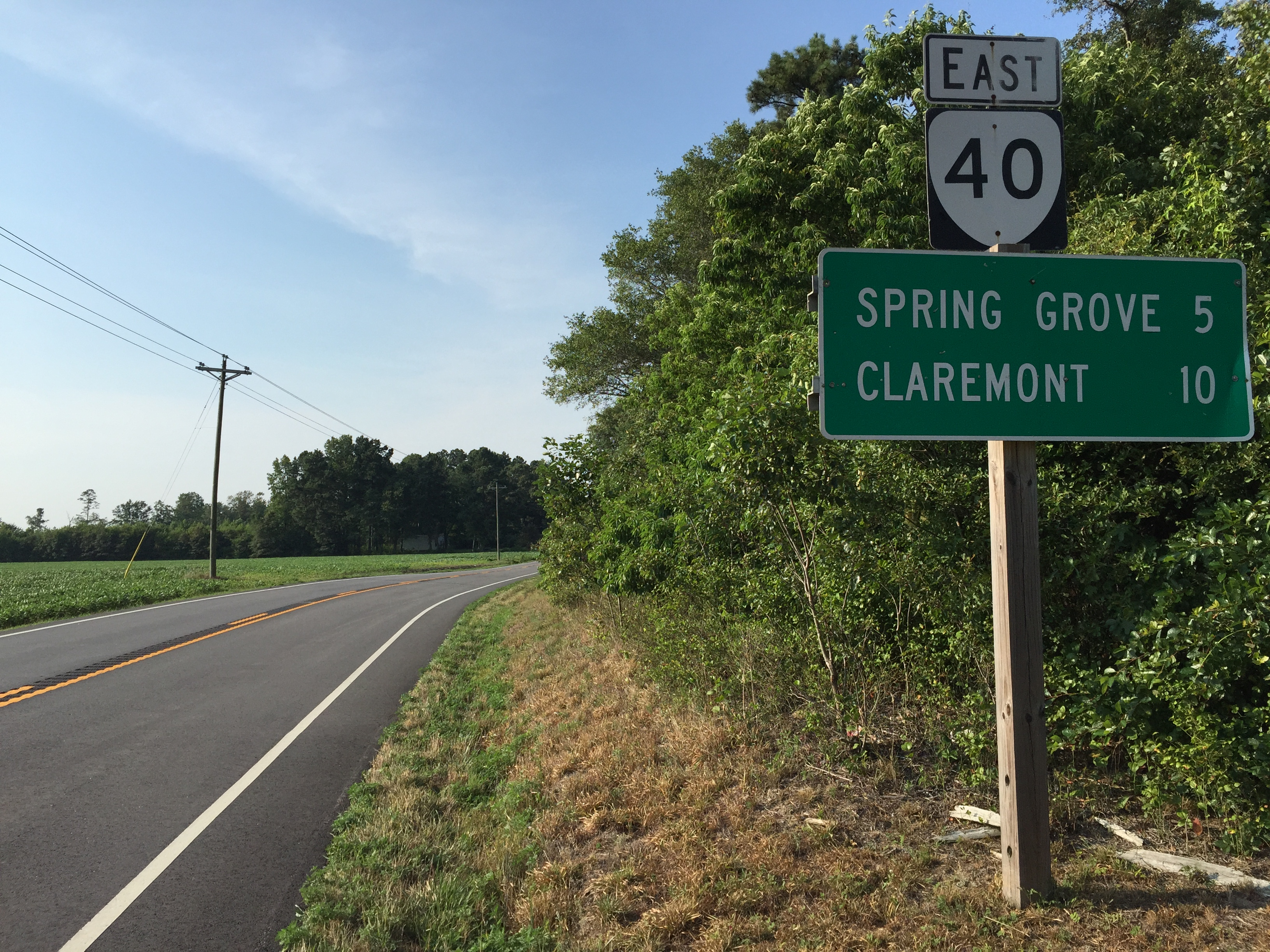 View east along Virginia State Route 40 (Martin Luther King Highway) at Pine View Road in Gwaltney Corner, Surry County, Virginia